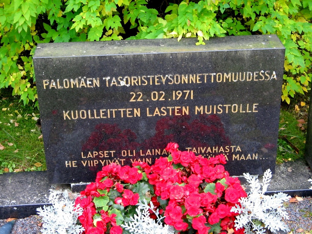 Memorial at Kannonkoski cemetery in Kannonkoski, Finland, for the children died in the Kannonkoski level crossing accident on 22 February 1971.